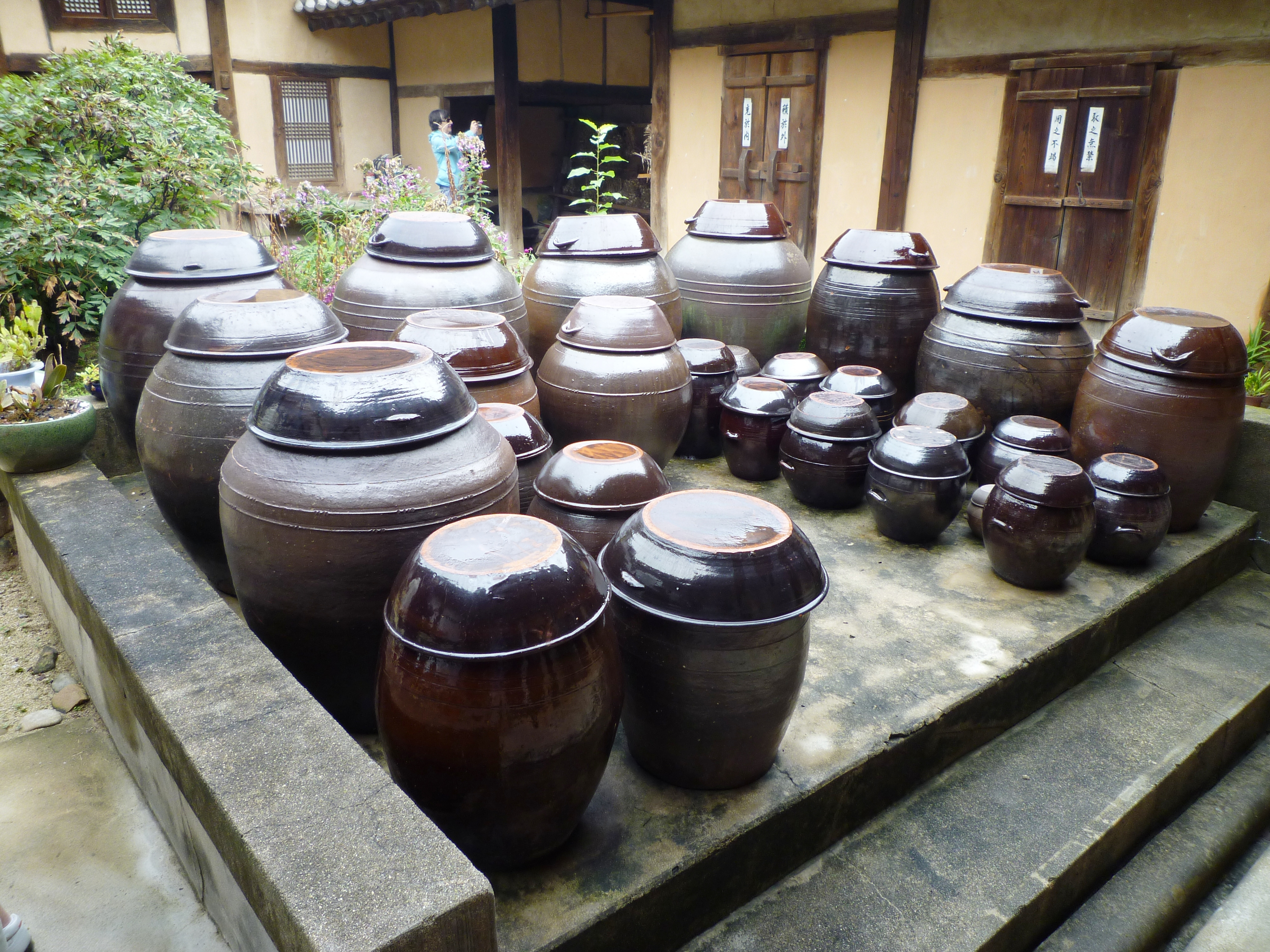 Kimchi jars in south-korean home